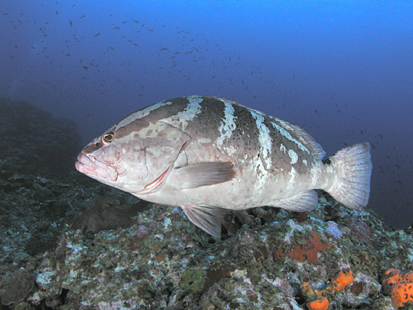 Large Nassau Grouper at The Pinnacle, Saba, Netherlands Antilles. Image taken by Clark Anderson/Aquaimages.